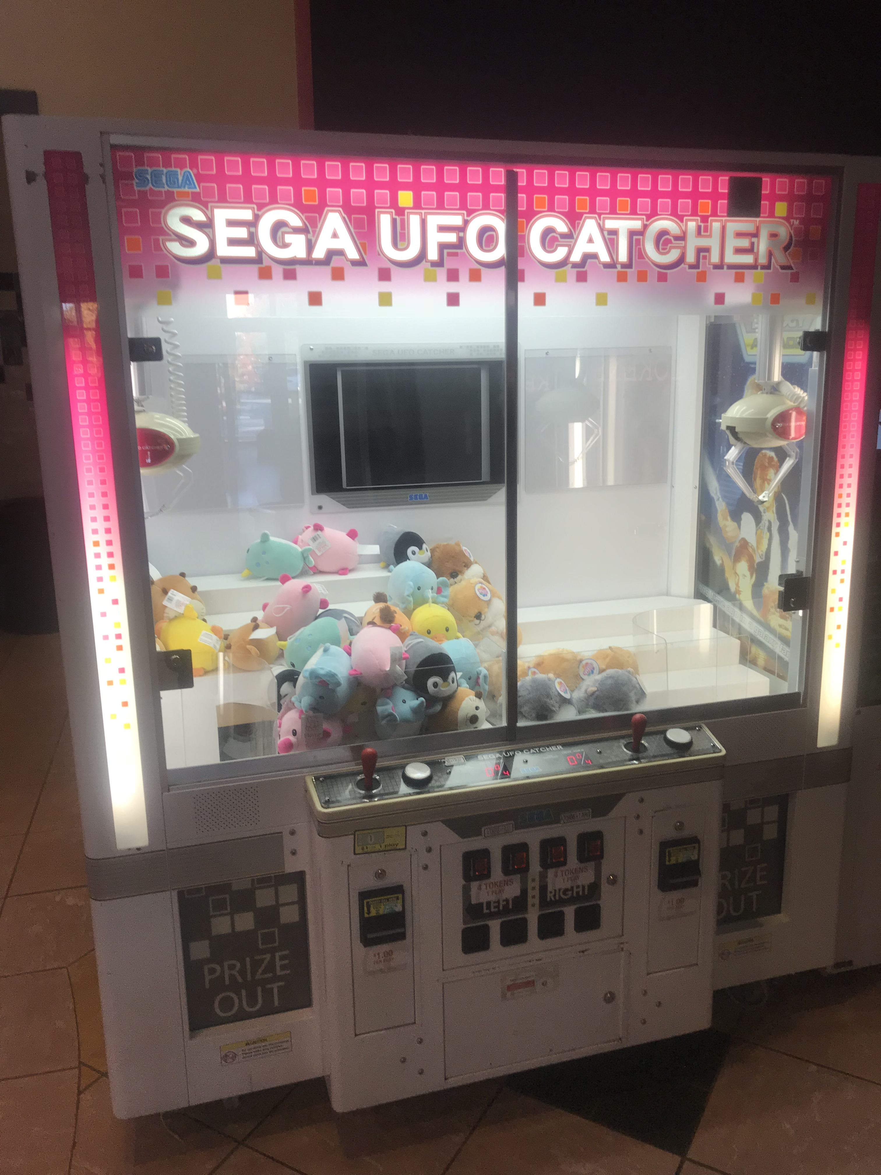 An image of a Sega UFO Catcher machine, as taken in a North American movie theater arcade.